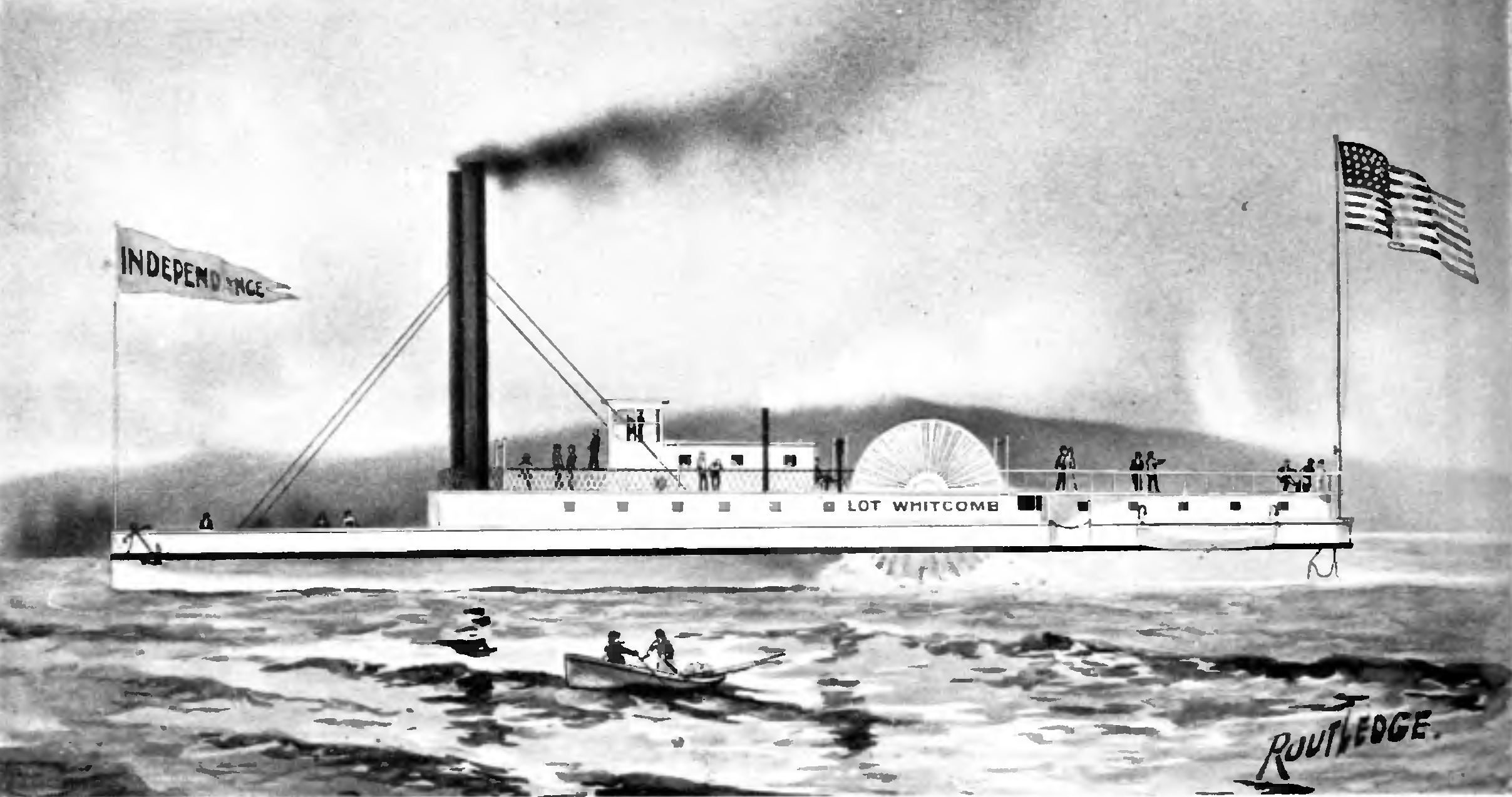 painting of Lot Whitcomb (sidewheel steamboat)